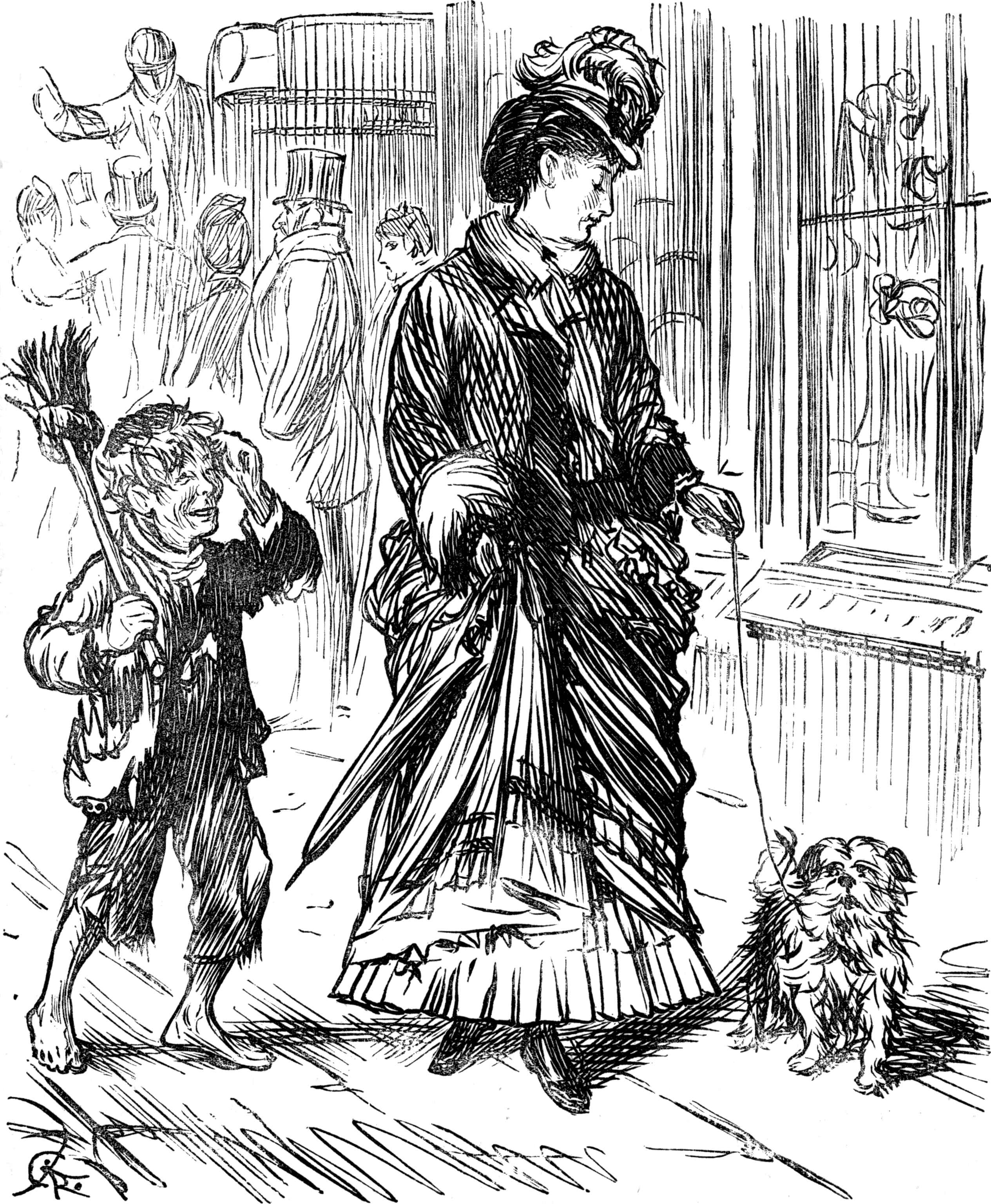 “NO SUCH LUCK.” Young Lady. “Is it Hungry, then? Come along, little Darling, it shall have its Dinner.” Street-Sweeper (overhearing, and misapplying). “Here y'are, Miss! Right you are! I jest am!” [Ah! but it was Fido she was speaking to!]